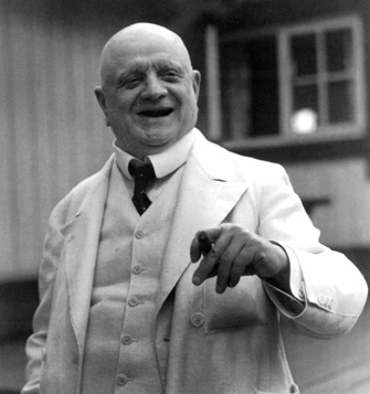 Photograph of Jean Sibelius, the Finnish composer of classical music, taken in 1939. This photograph is displayed on the website of Ainola at